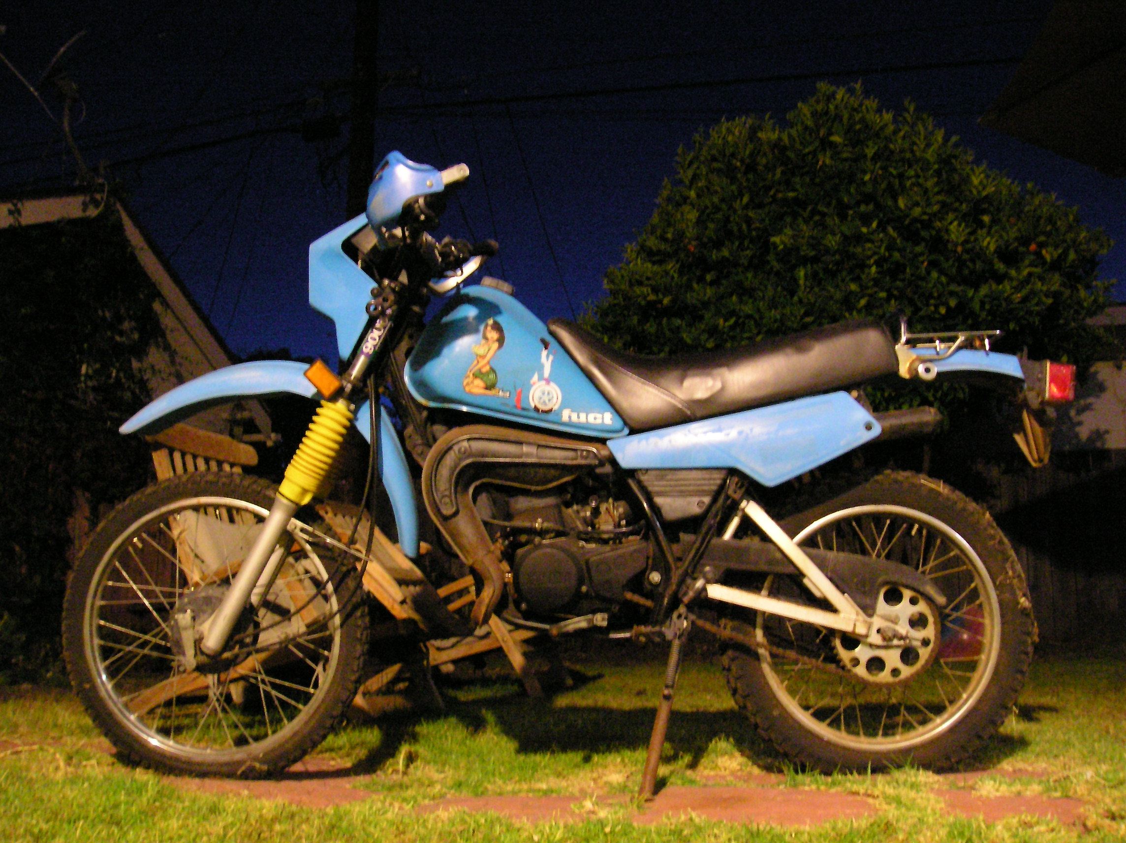 A Yamaha DT50MX, with some old stickers on the gas tank. Wish I could get em' off.